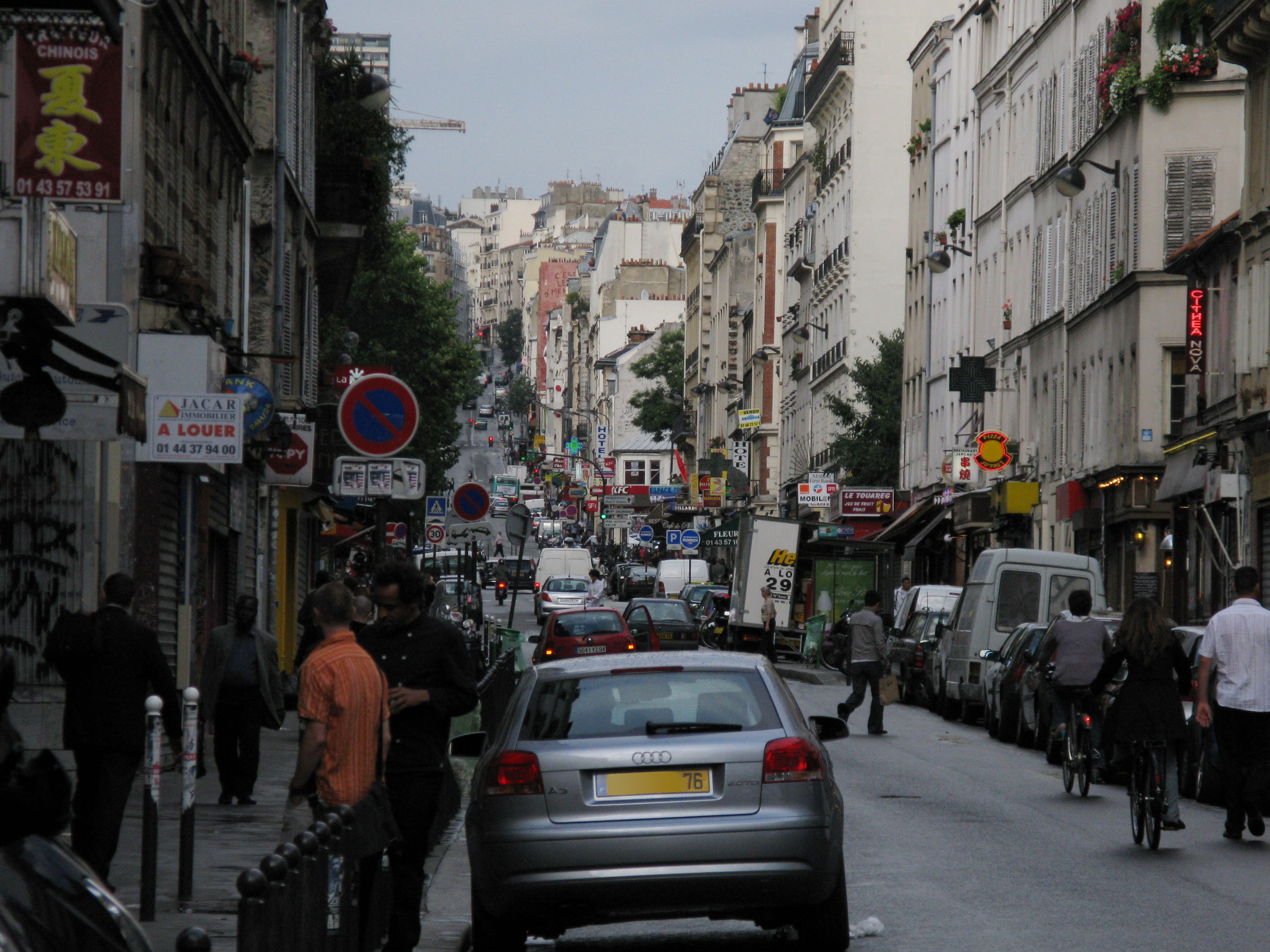 very animated rue Oberkampf, Paris 11th Arrondissement